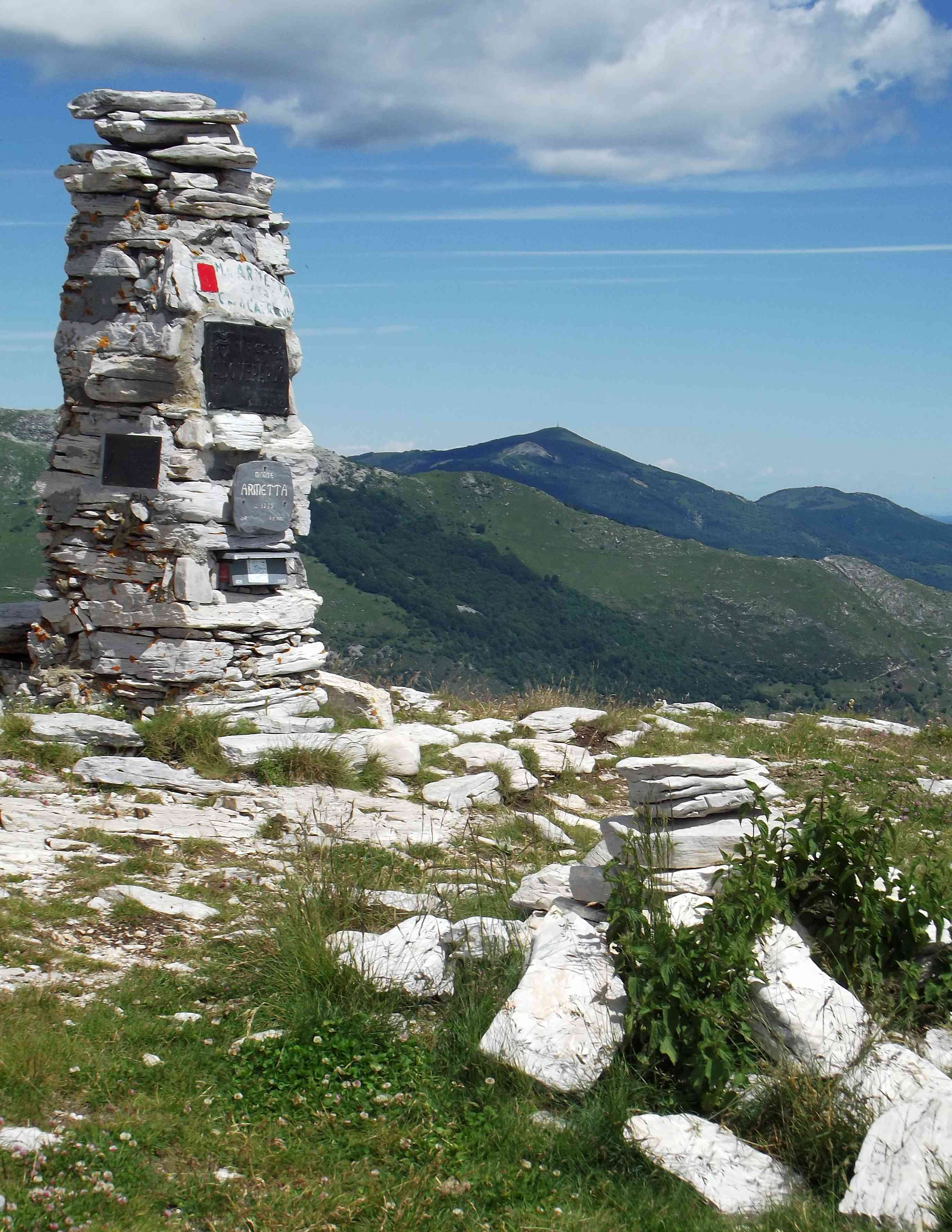 Monte Armetta (Ligurian Prealps): the cairn on the top, in the background Bric Mondino (CN, Italy)